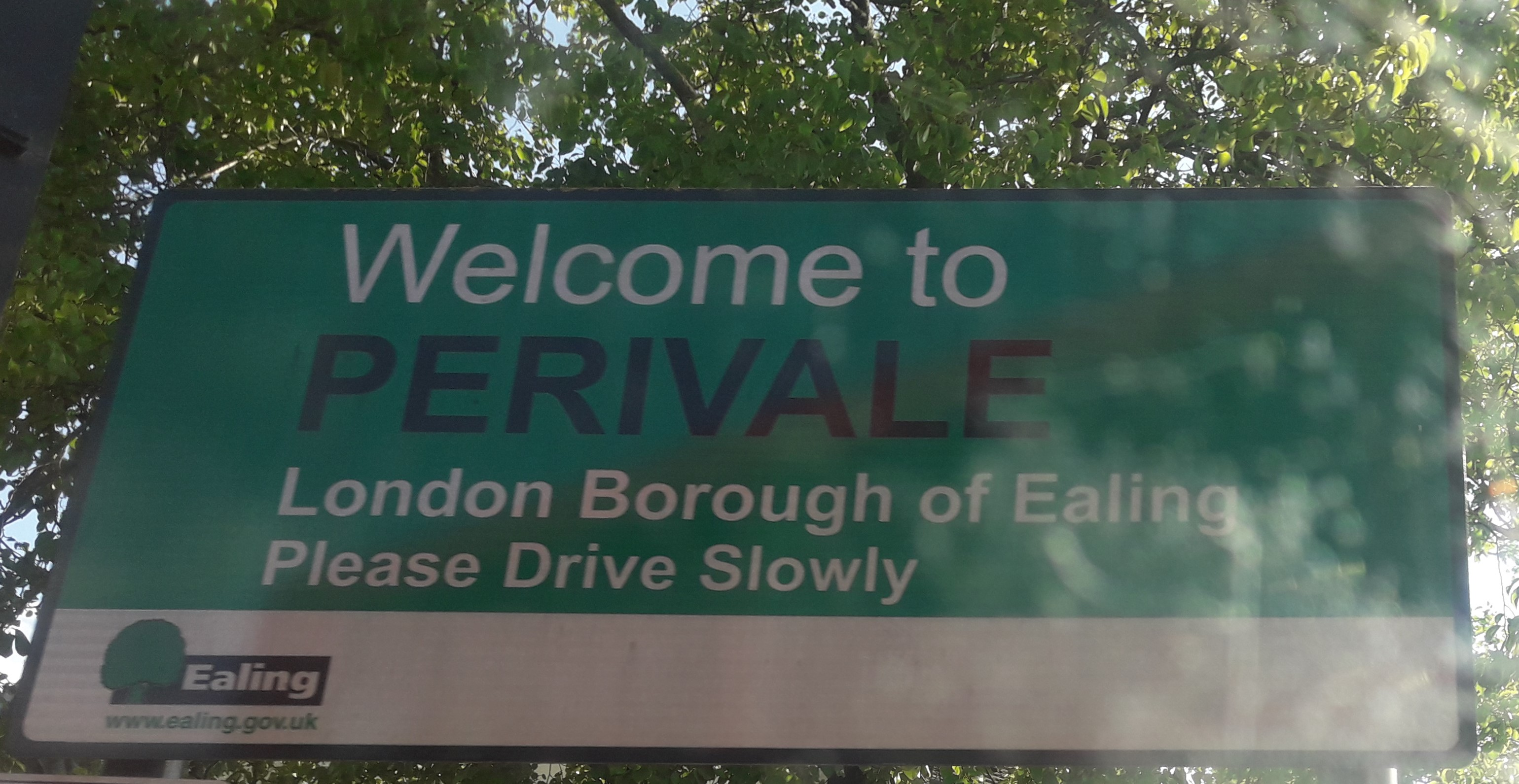 Entrance to Perivale, London sign